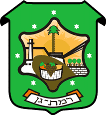 Coat of Arms of the city of Ramat Gan, Israel